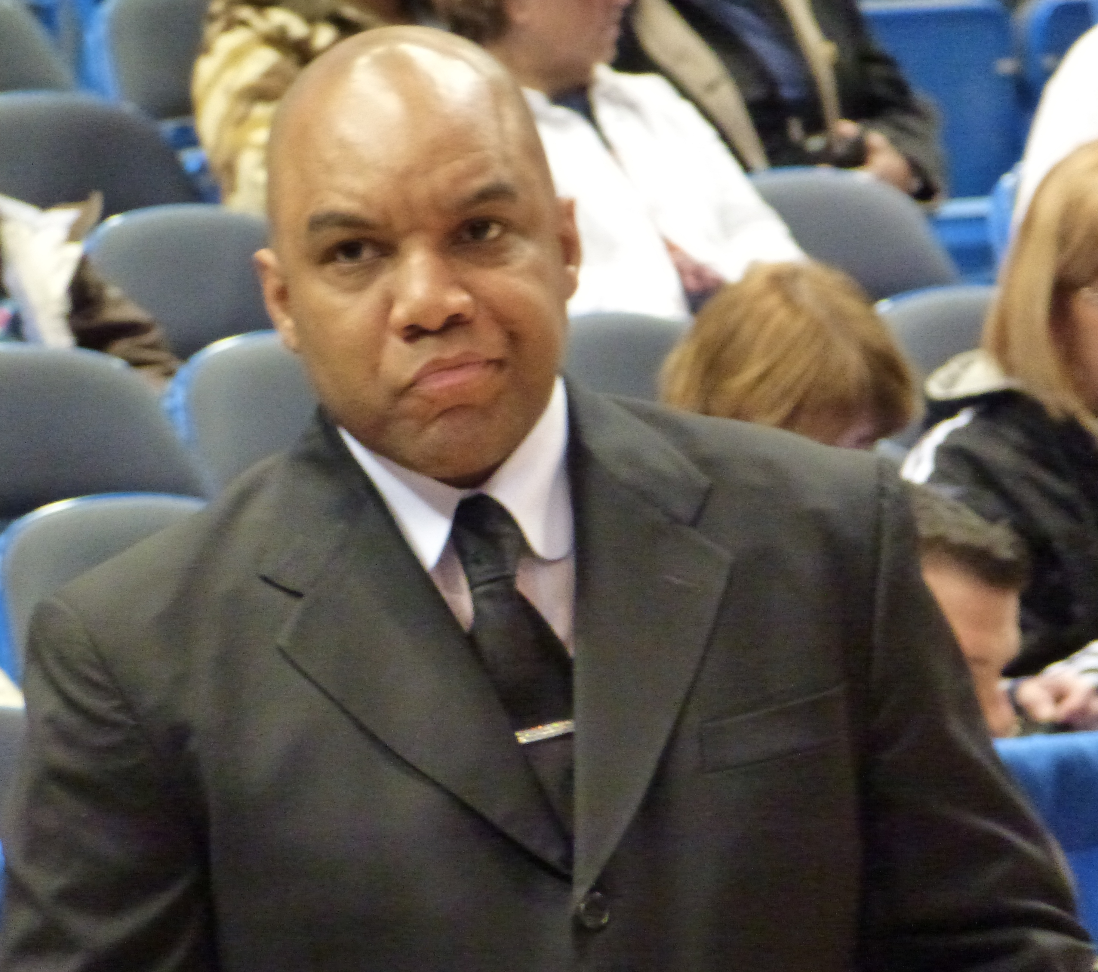 Quentin Hillsman, coach of the Syracuse women's basketball team. Taken at the Big East Tournament in 2012.